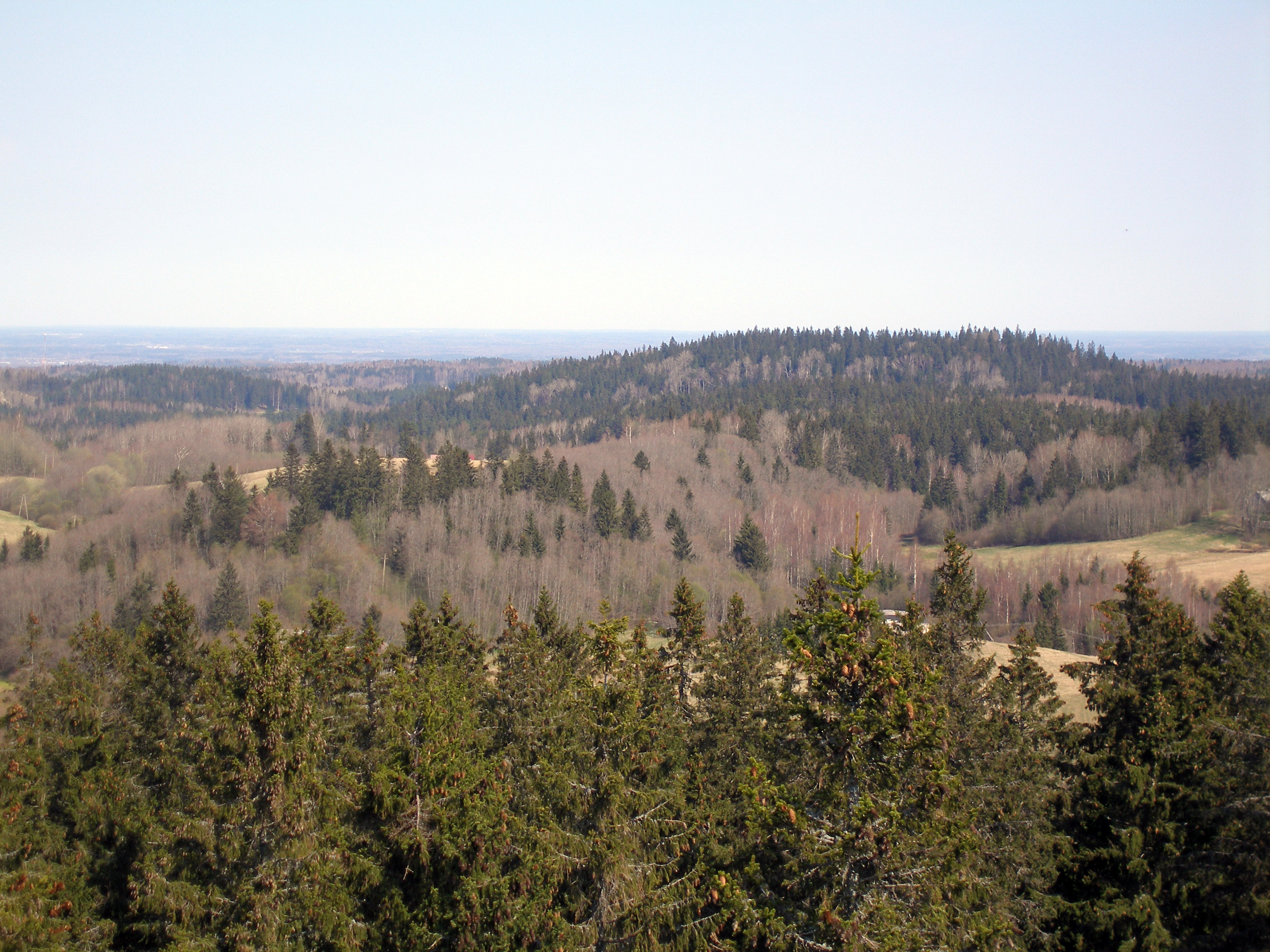 View of Haanja Upland from the tower of Suur Munamägi in early spring. Mixed forest on some of the hills is clearly visible.